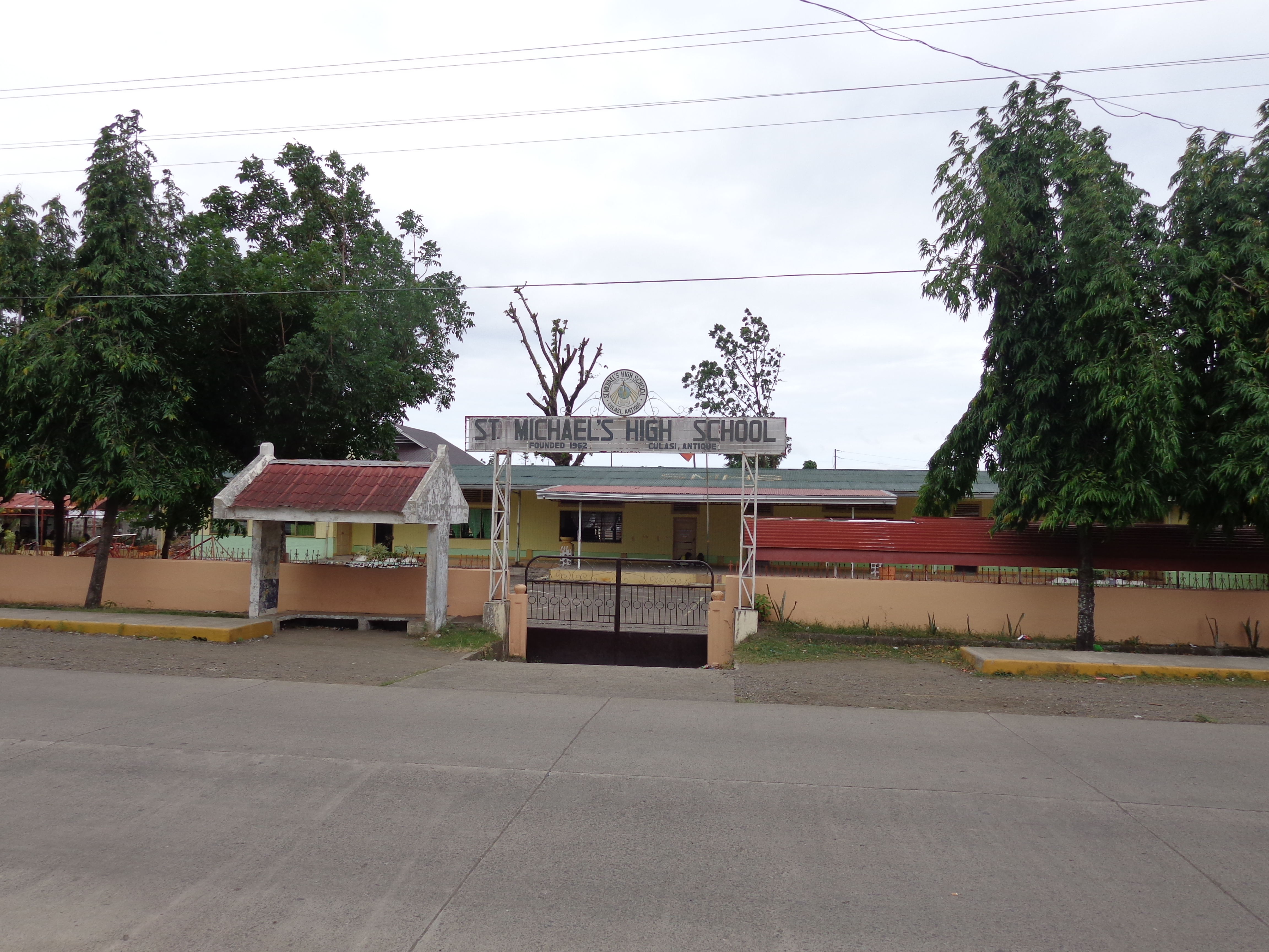 Saint Michael's High School in Culasi, Antique, the Philippines